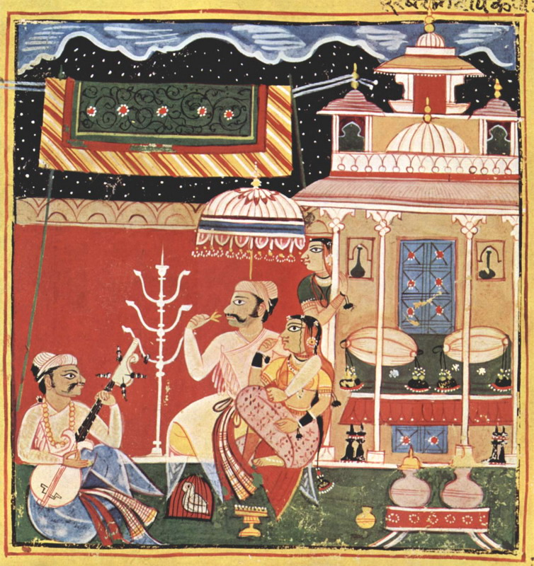 "Chavand Ragmala Dipak-raga" by attributed to "Nisardin"